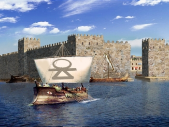 Reconstruction of Cothon access of Mozia